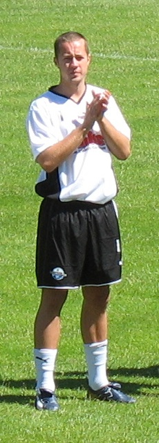 Lukas Kruse, goal keeper of the SC Paderborn 07